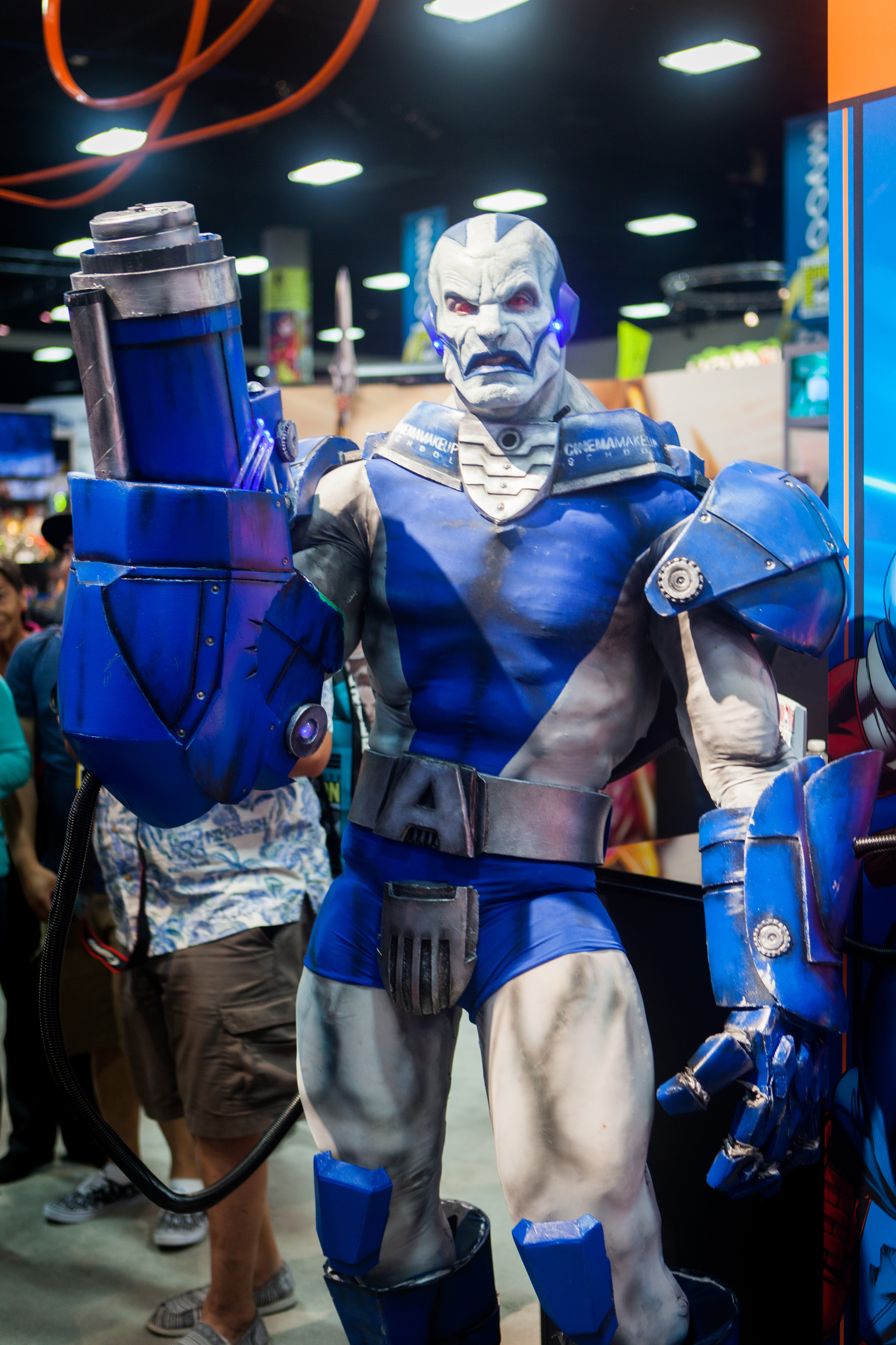 Mick Ignis cosplaying as Apocalypse (from Marvel Comics) at San Diego Comic Con 2014.